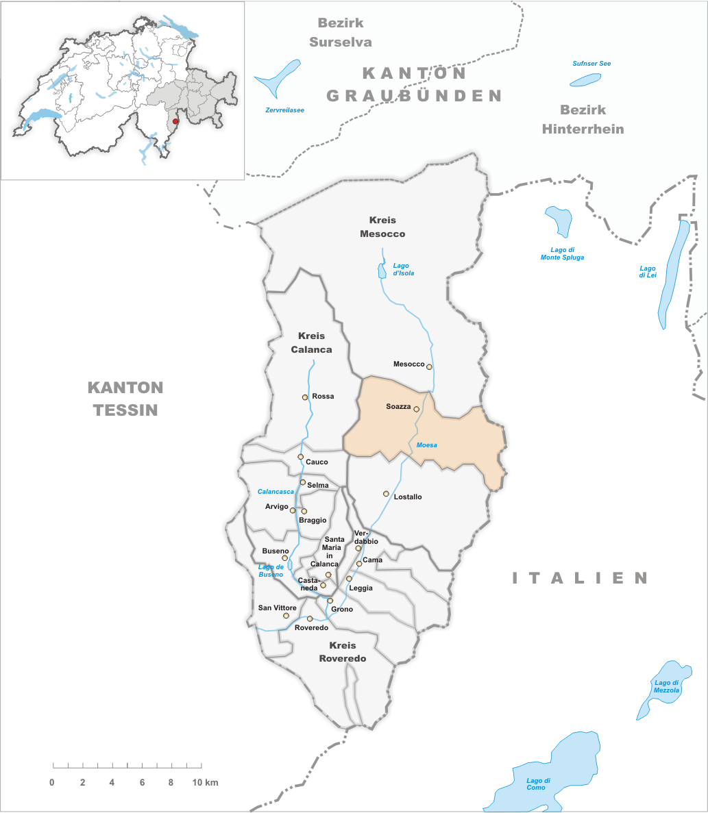 Municipality Soazza